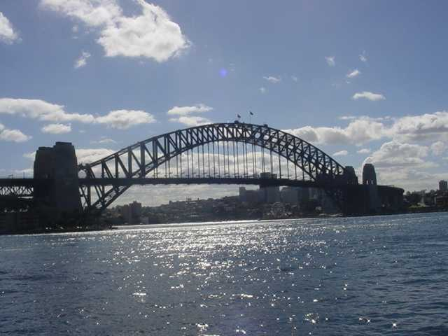 Sydney Harbor Bridge, made when i was traveling in Australia in August 2002 . More pictures of Sydney Bridge can be found on my Website.